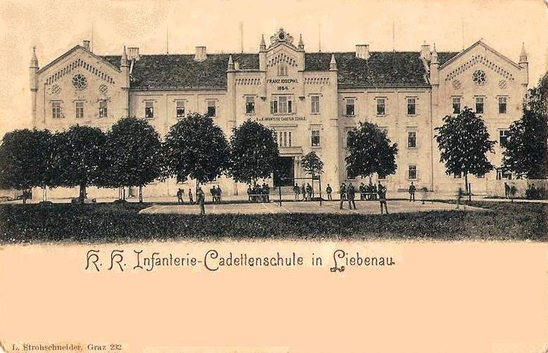 Postcard, ~1900, showing Austrian k.k. infantry cadet school (established in former Liebenau manor-house).